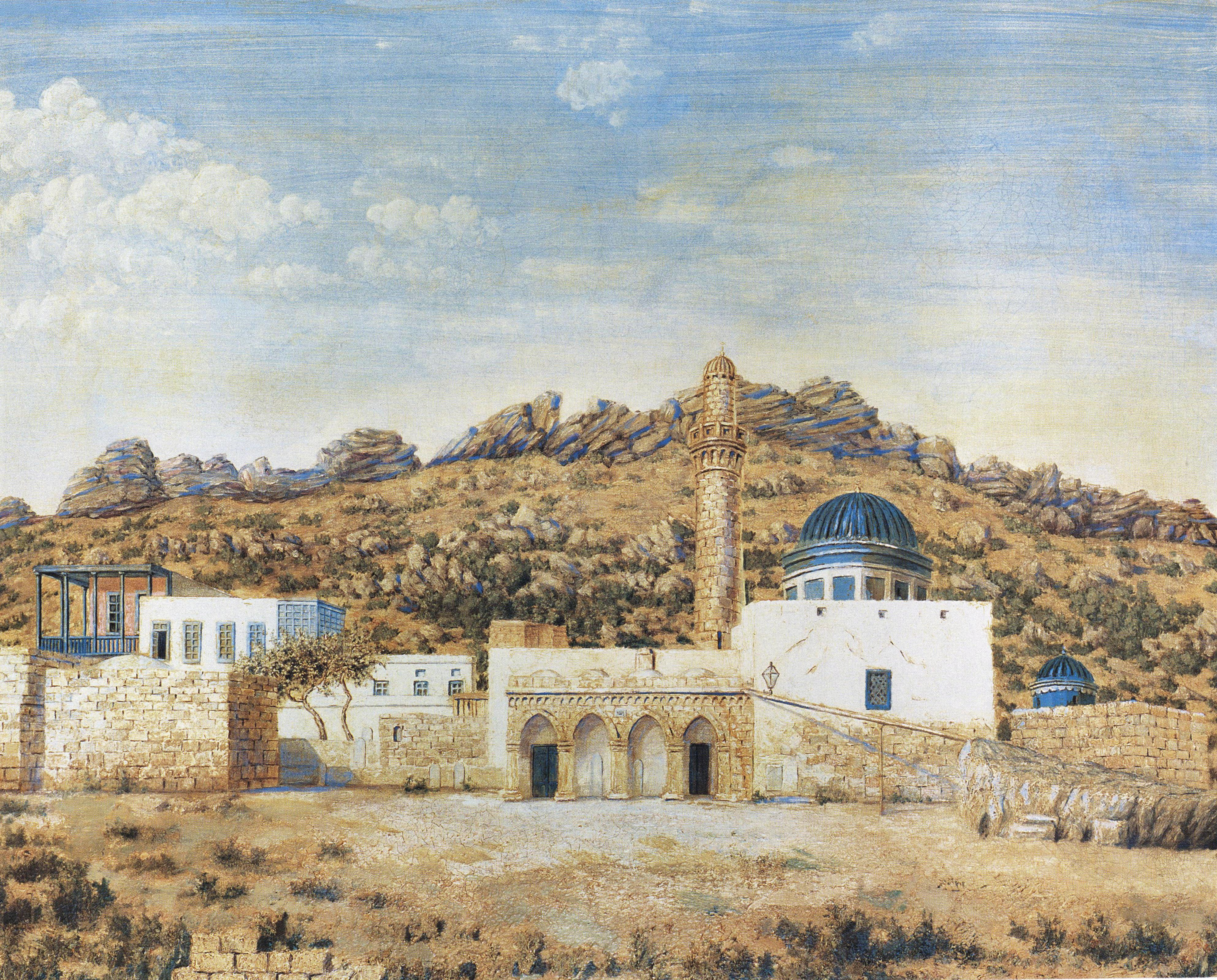 Bibi-Eybat mosque. Oil on canvas